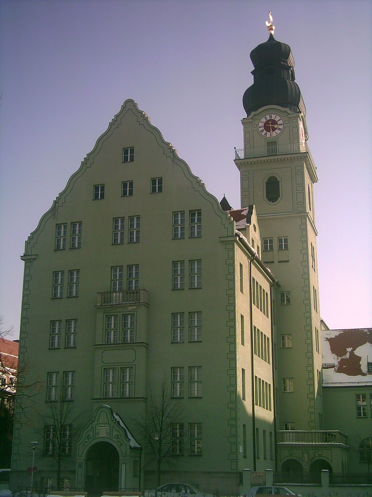 School Gotzingerschule Sendling, Munich, Bavaria, Germany. Photo taken myself: Dominik Hundhammer, München, January 2005.